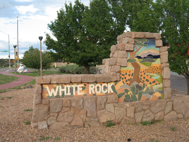 This sign is located on State Road 4, near the intersection with Rover Blvd. This photo was taken by myself (User:Chyeburashka).